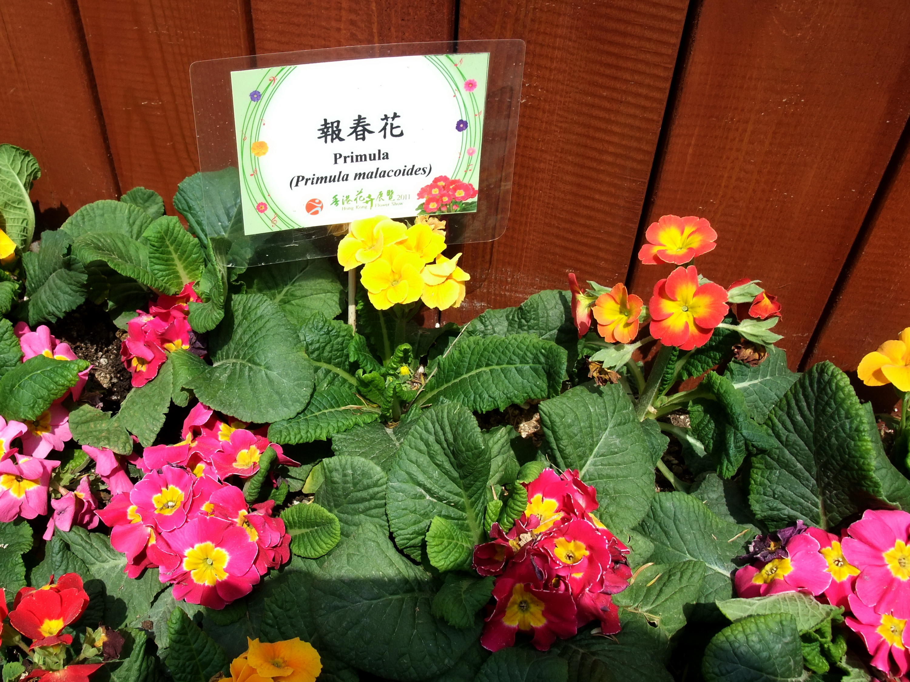 Hong Kong Flower Show 2011 Theme Flower Primula